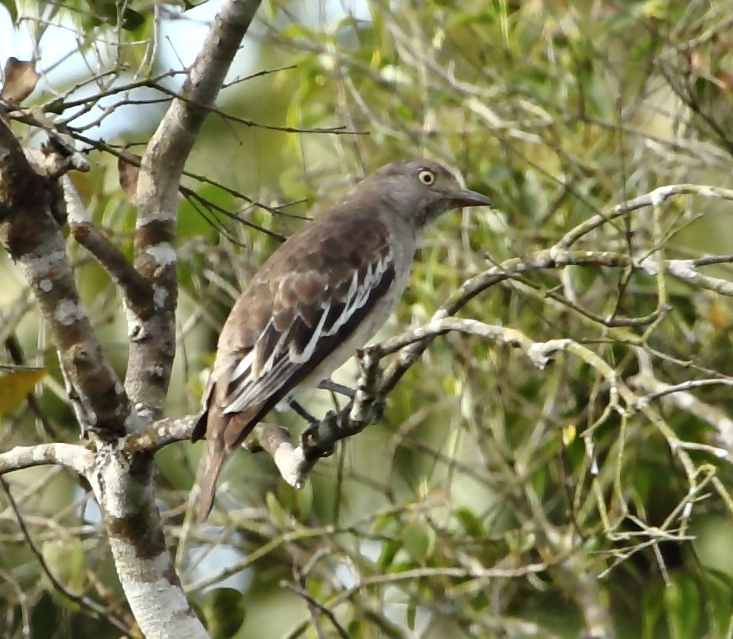 Pompadour cotinga (female) at Manaus - AM - Brazil